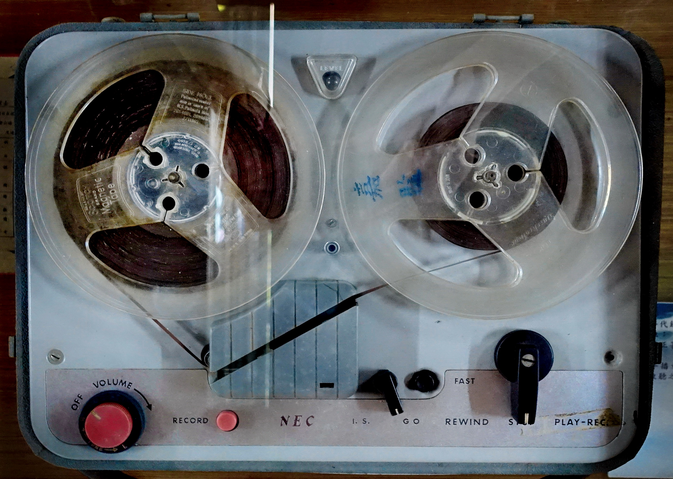 An NEC reel-to-reel audio tape recorder at Prison Museum.